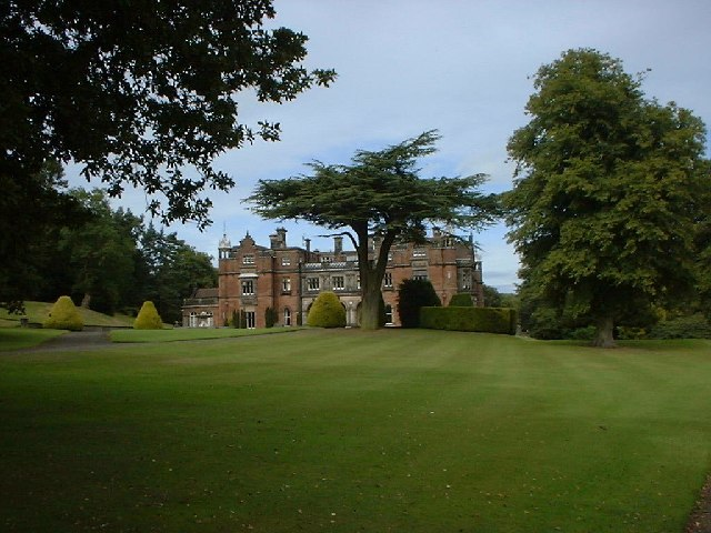 Keele Hall, Keele. This historic house now forms part of the campus of the University of Keele. Some of the grounds of the house still also survive.